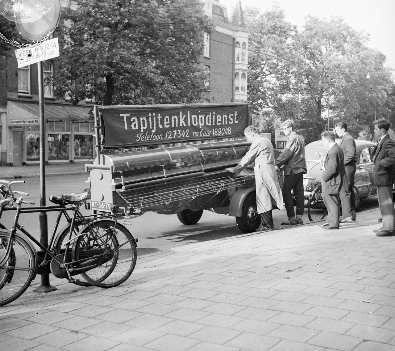 Nationaal Archief Beschrijving: Eerste rijdende tapijtklopmachine in Amsterdam. Datum: 22 juli 1960 Vervaardiger: Anefo / Gelderen, Hugo van Bestanddeelnummer: 911-4458 URL: Voor meer informatie over het Nationaal Archief: Voor meer foto's uit deze en andere collecties, bezoek onze Beeldbank:, U kunt ons helpen onze kennis van de fotocollecties te verrijken door tags en commentaren toe te voegen. Herkent u mensen of locaties of heeft u een bijzonder verhaal te vertellen bij één van de foto's, laat dan een reactie achter (als u ingelogd bent bij Flickr) of stuur een mailtje naar